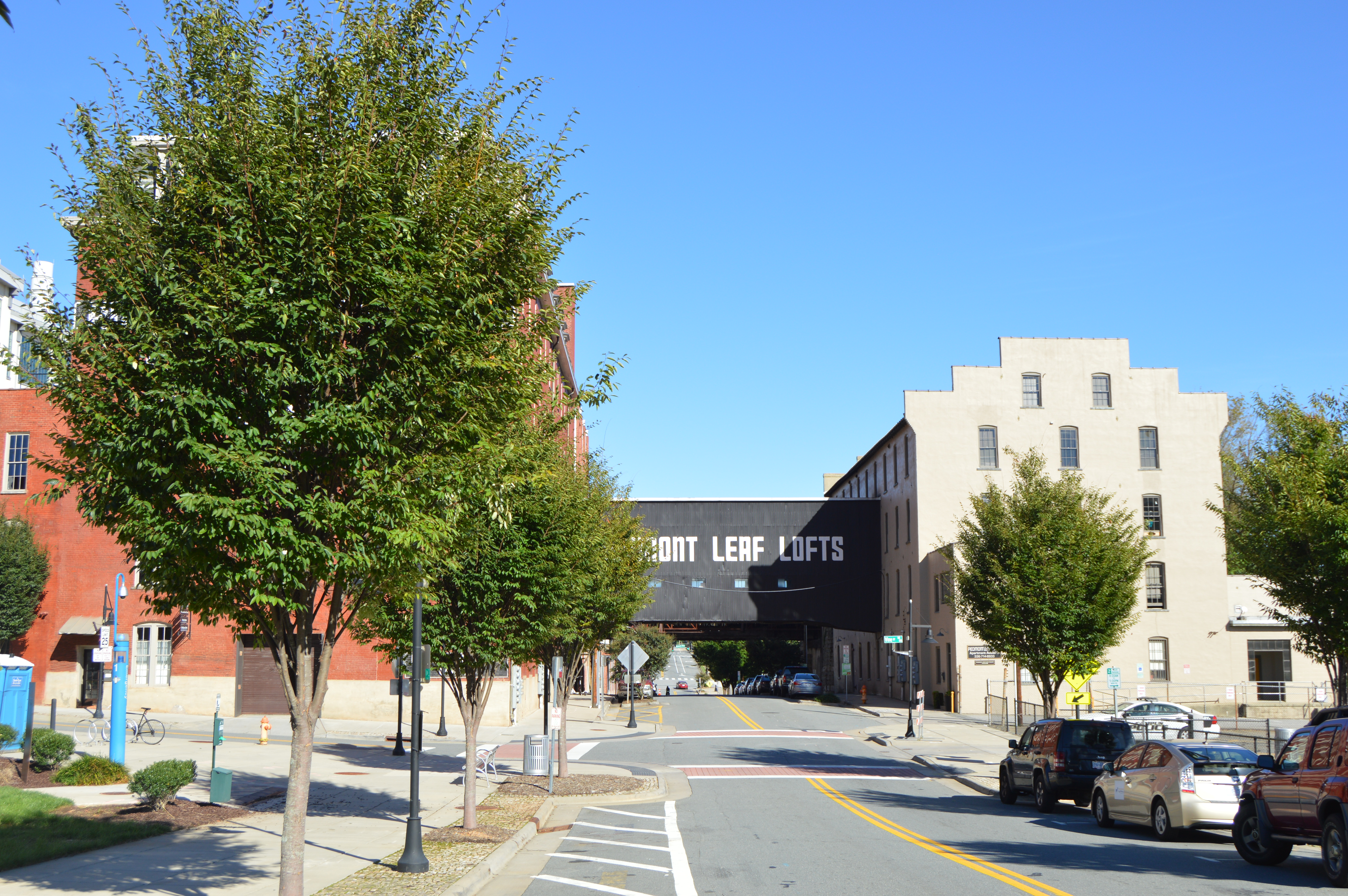 Distant view from the west of the W. F. Smith and Sons Leaf House and Brown Brothers Company Building, located on E. Fourth Street between Patterson Avenue and Linden Street in Winston-Salem, North Carolina, United States. Built in 1890, it is listed on the National Register of Historic Places, and it is part of a Register-listed historic district, the Winston-Salem Tobacco Historic District.